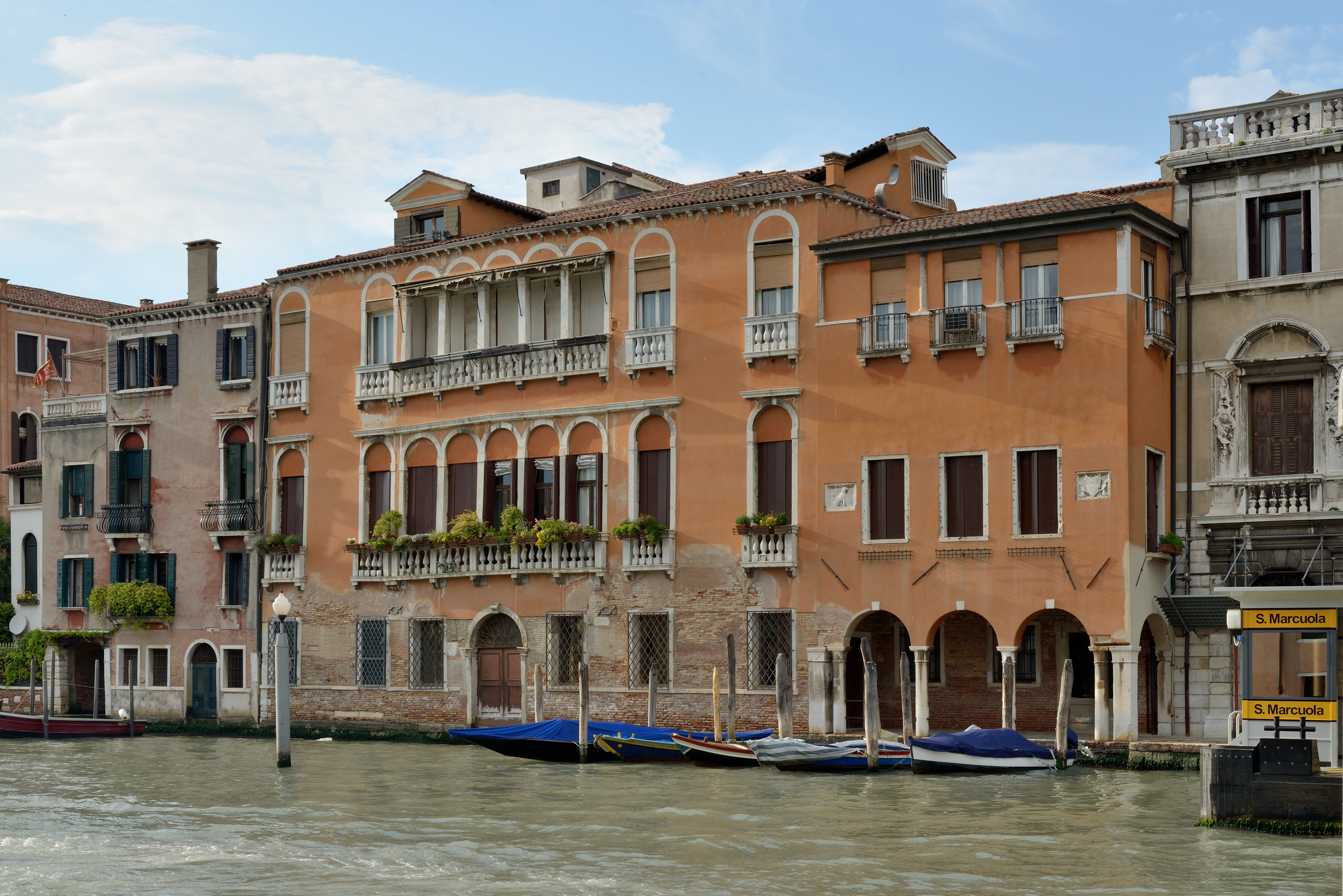 The Palazzo Gritti Dandolo on the Canal Grande in Venice.